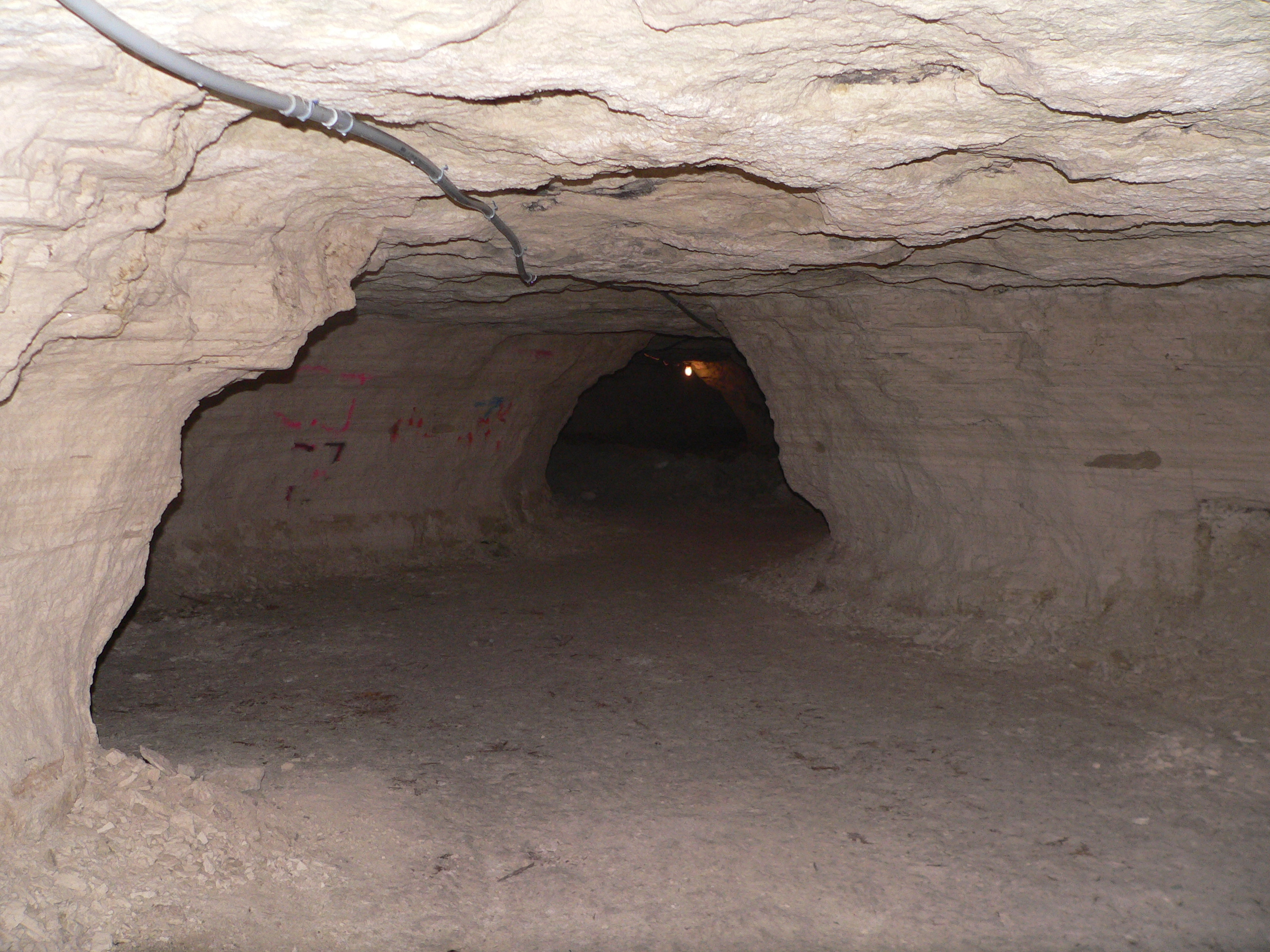 Interior of Happy Jack Chalk Mine, located near Scotia, Nebraska.